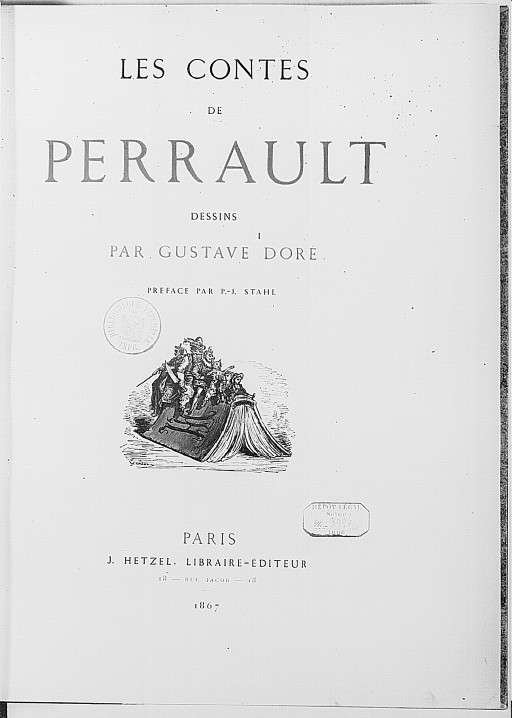 Title page from an 1867 edition of the Charles Perrault's fairy tales entitled Les Contes de Perrault.